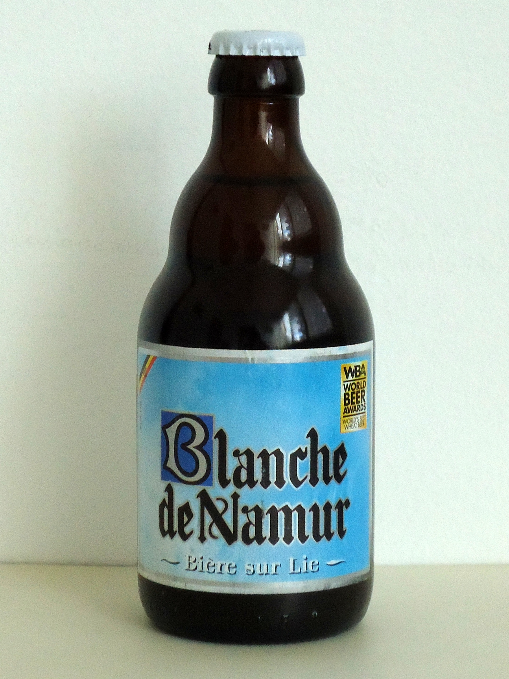 Blanche de Namur beer